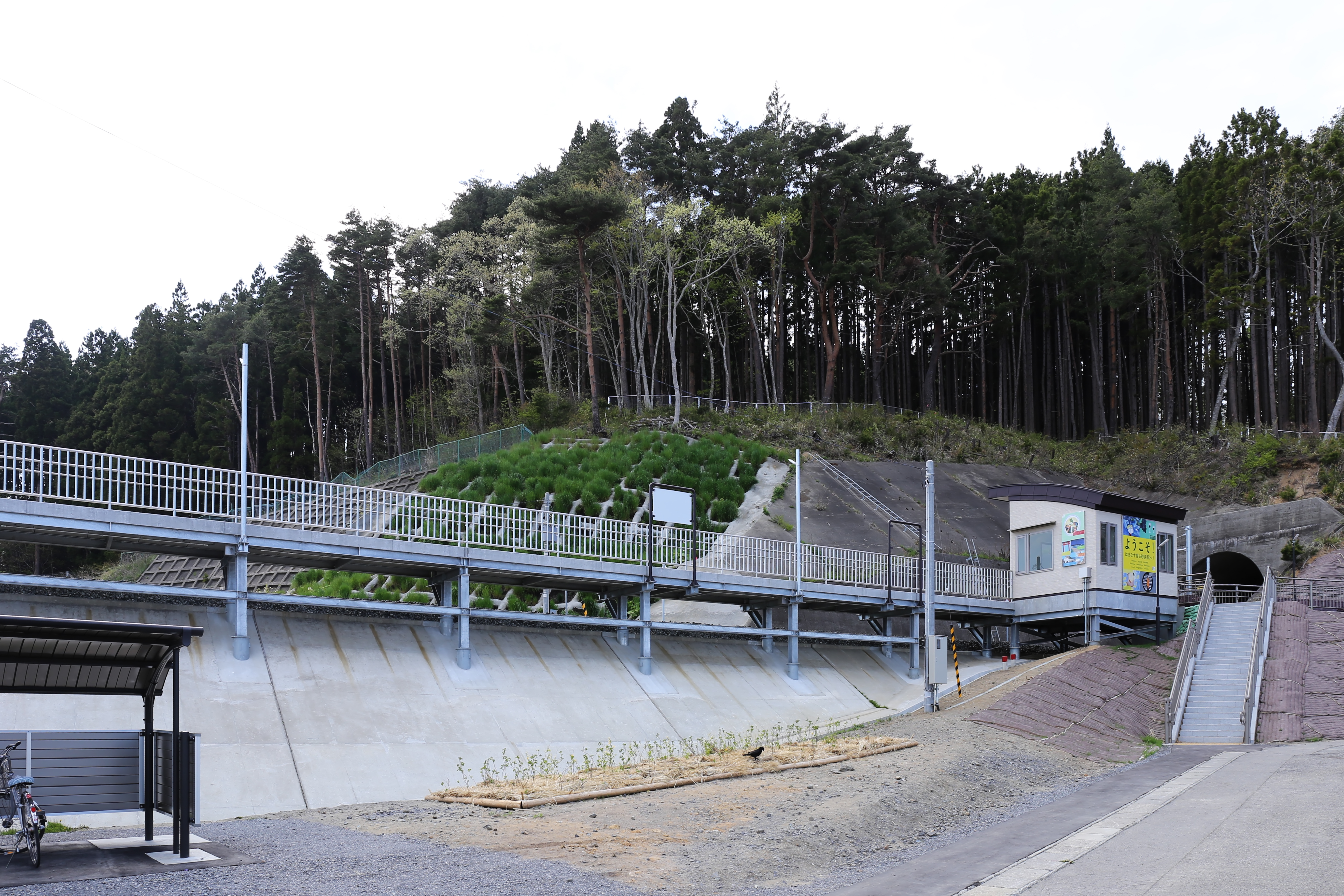 Tofugaura Kaigan Station on the Sanriku Railway Kita-Rias Line in Noda, Iwate Prefecture, Japan